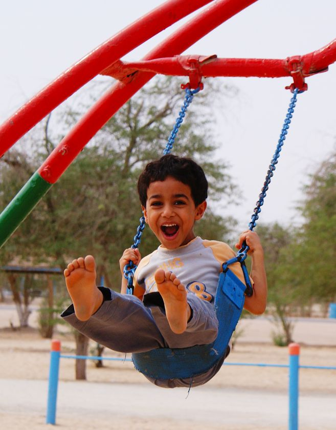 Taste of Happiness